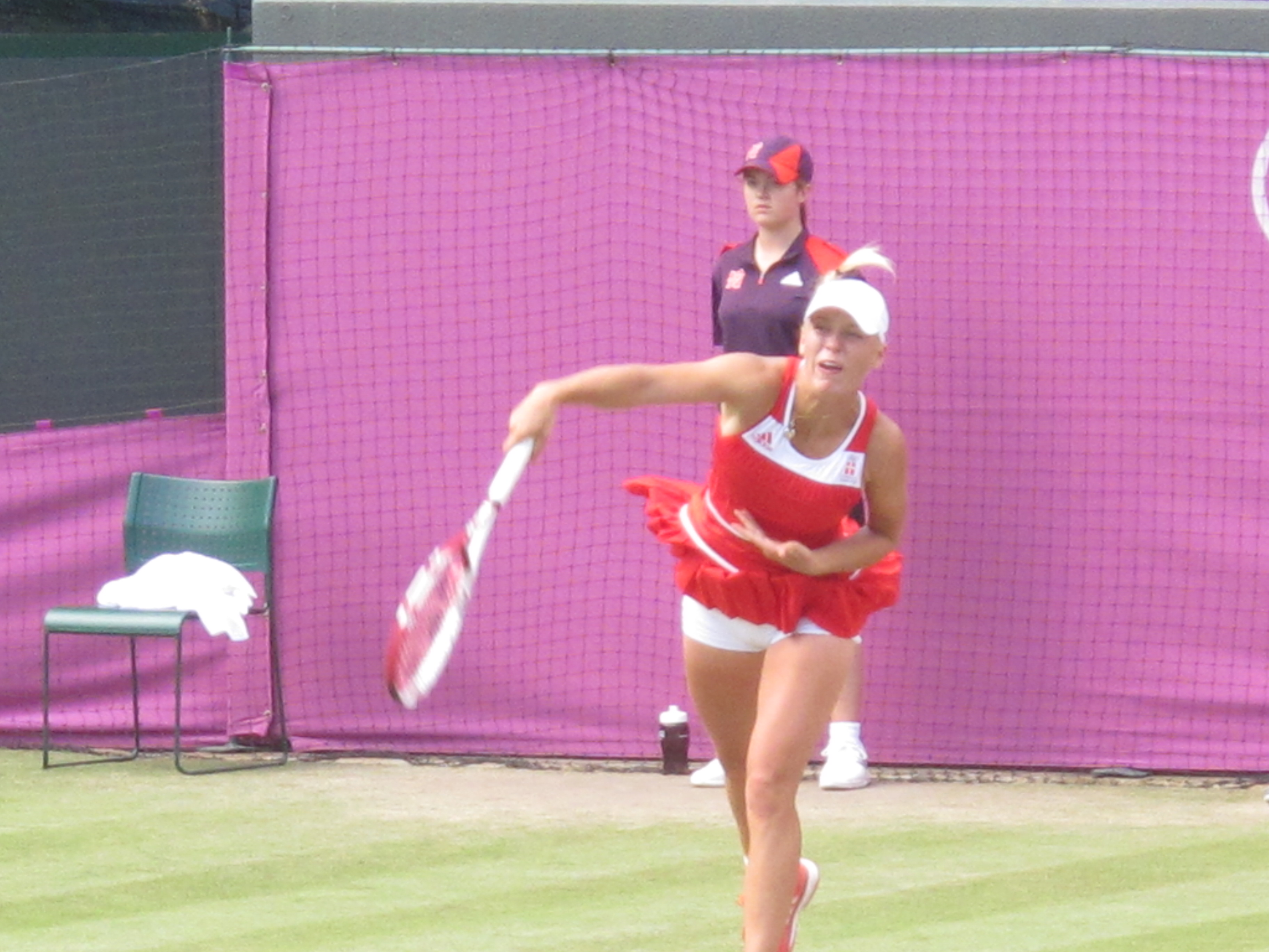 Olympics 2012 Tennis -Wimbledon